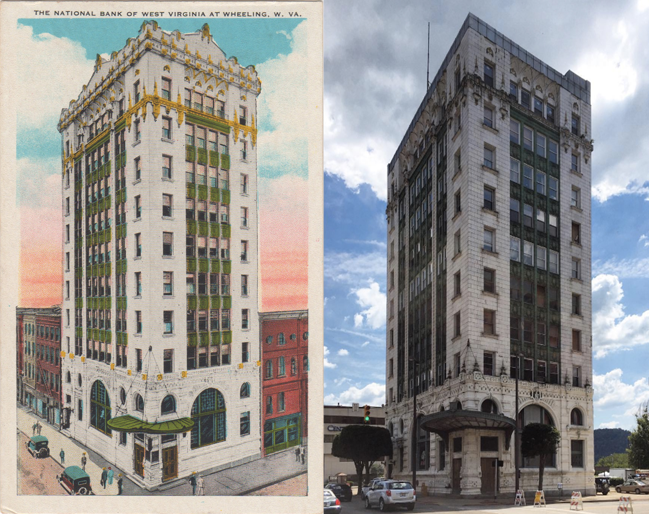 The former National Bank of West Virginia/W.M. Marsh Drug Company Building in Wheeling, West Virginia (USA), designed by Charles W. Bates and built 1914-15. Comparison between postcard, ca. 1915 (at left), and photograph from June 2016, showing building's transformation.